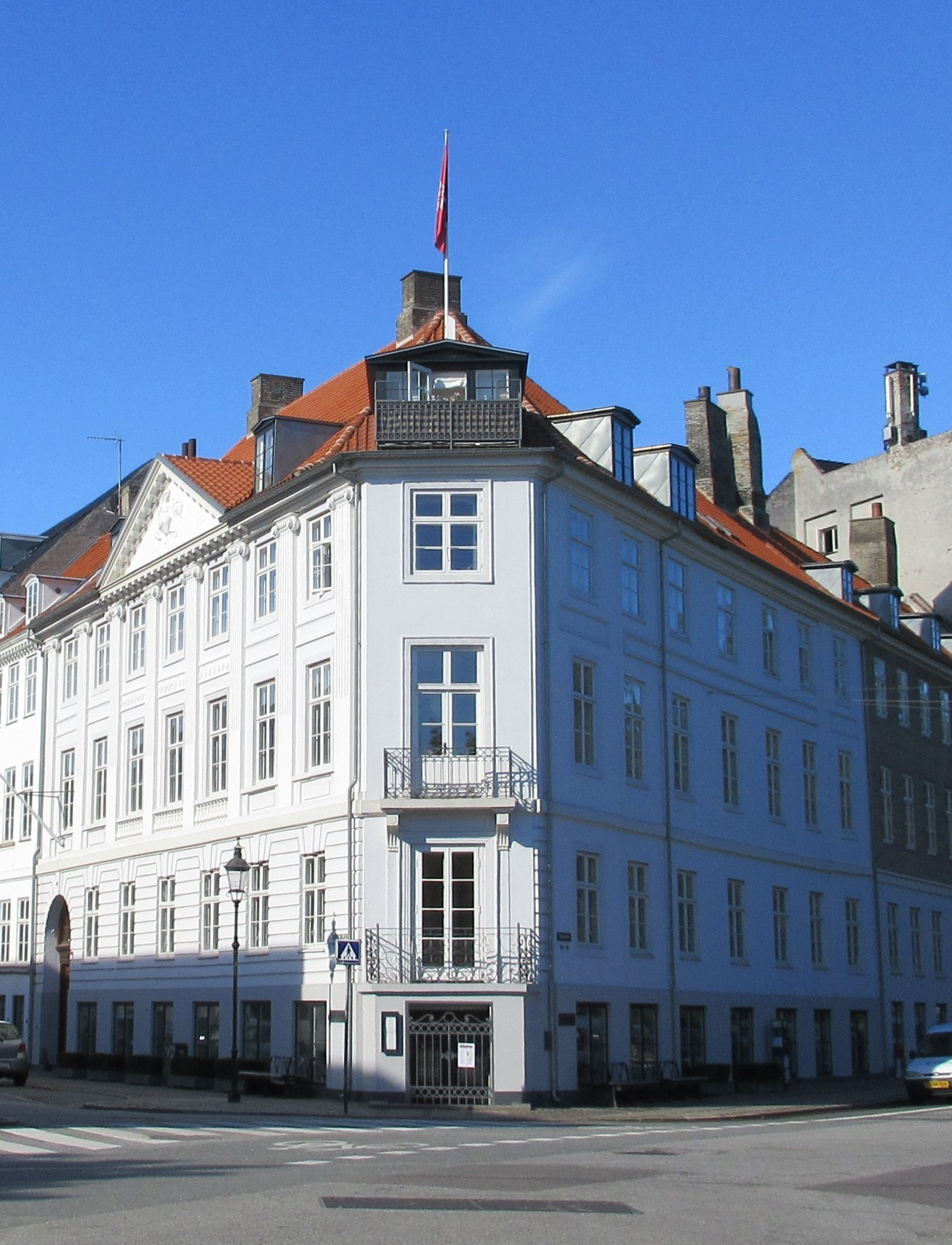 The building formerly known as Toldbodbørsen at Amaliegade 49 / Esplanaden 48 in Copenhagen, Denmark. Designed by Andreas Hallander and built in 1788.